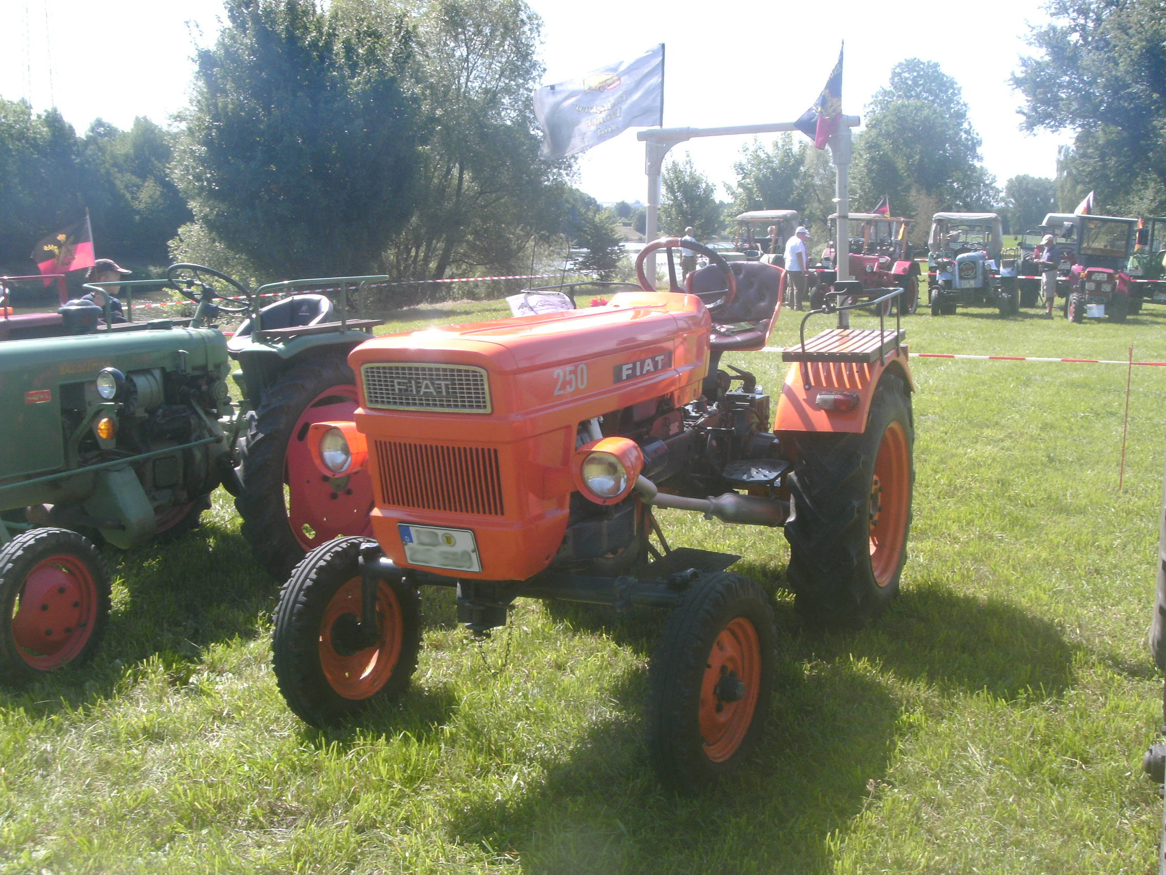 Fiat 250, year of manufacture 1969, 25 HP